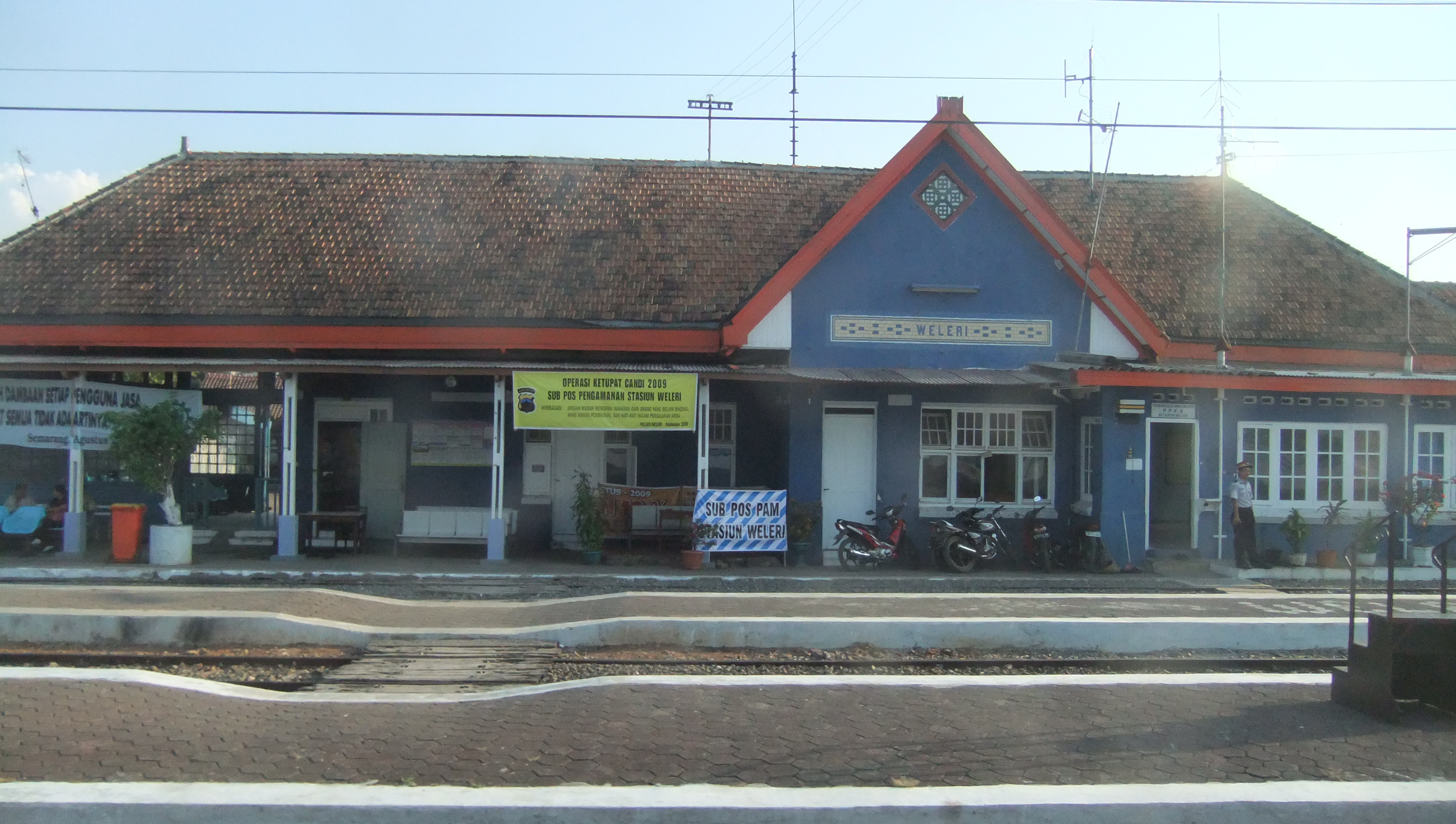 Weleri Station, Kendal, Central Java